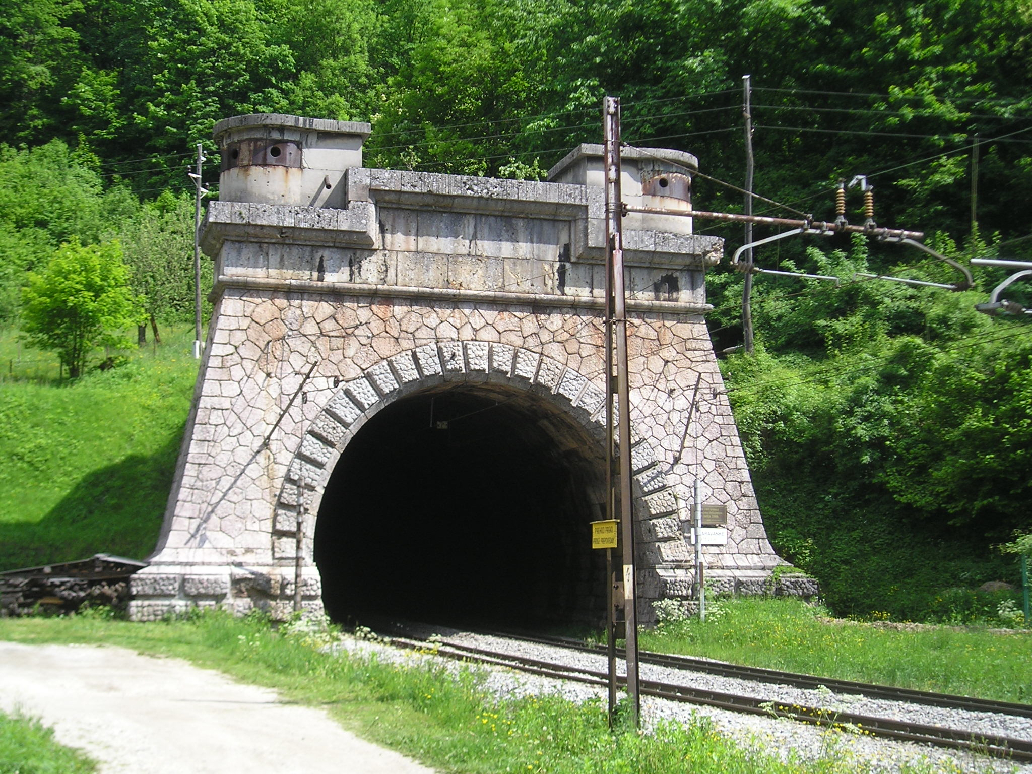 Sothern entrance of the Karavanke (Karawanken in German) rail tunnel (length: 7975.23 m, built in 1906), shared by Slovenia and Austria, in Hrušica near Jesenice, Slovenia